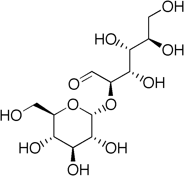 chemical structure of kojibiose